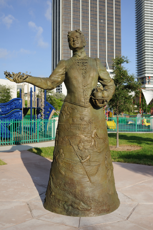 Julia Tuttle bronze statue in Bayfront Park (downtown Miami), unveiled on July 27, 2010